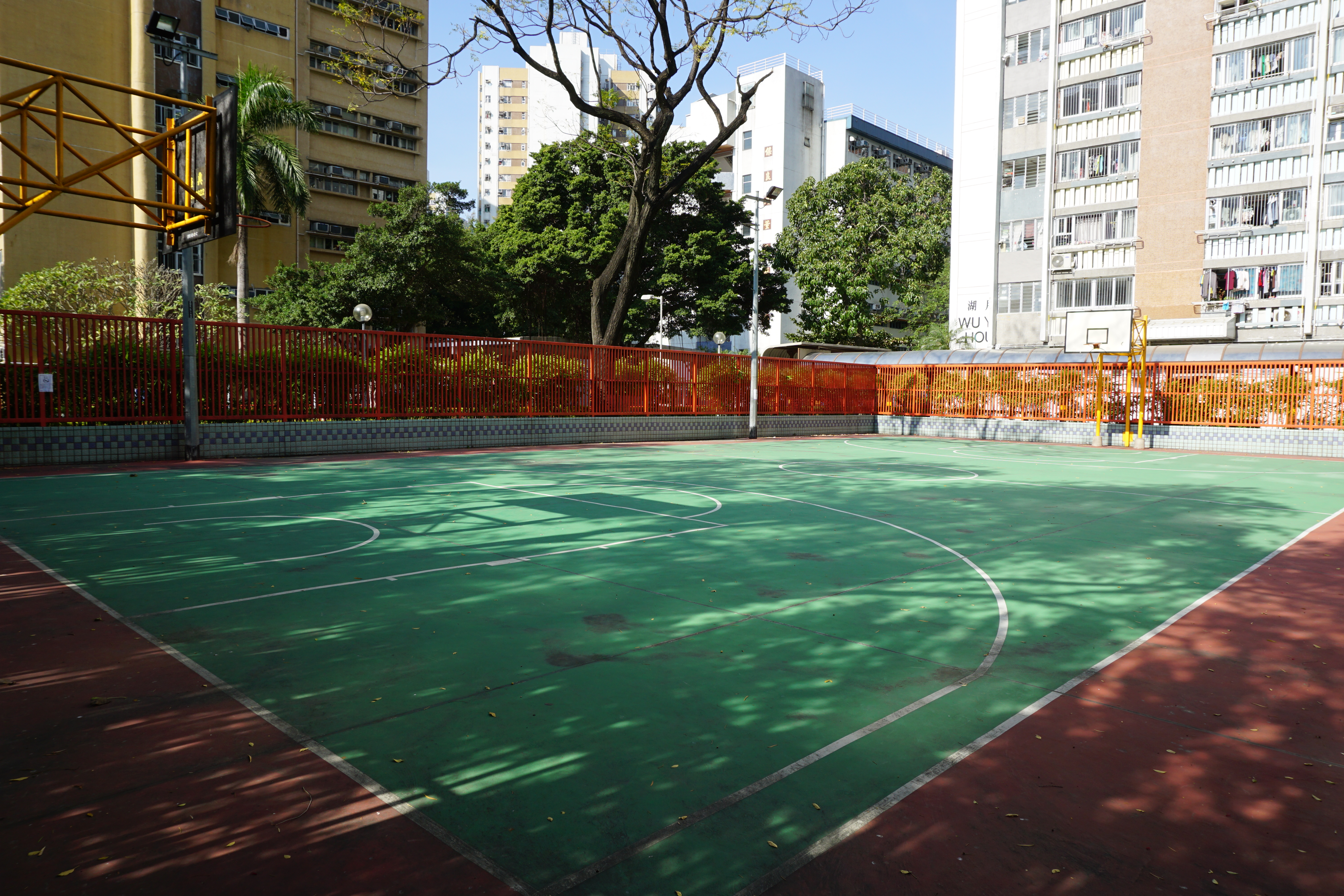 Wu King Estate in Tuen Mun, Hong Kong.